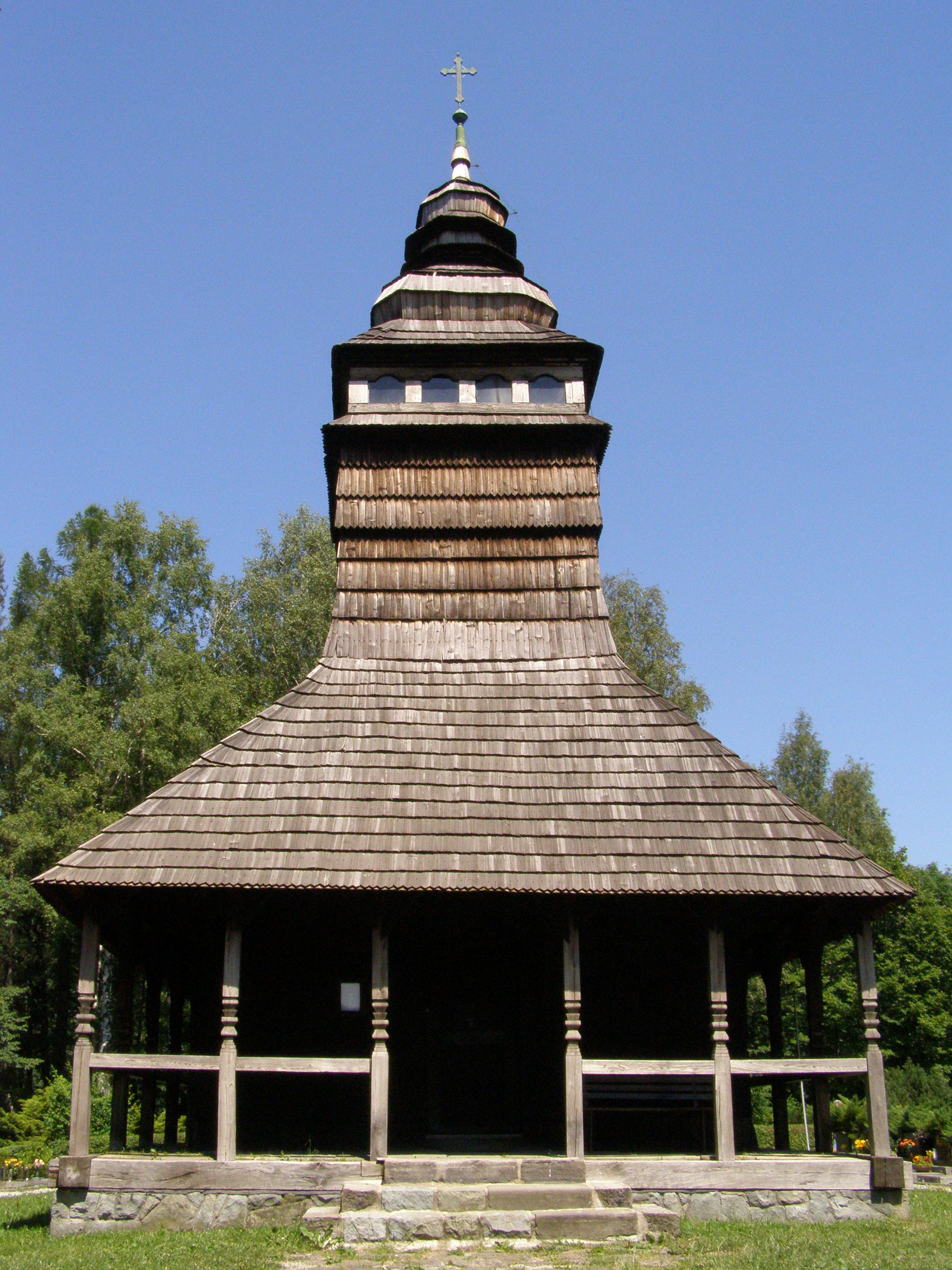 Kunčice pod Ondřejníkem, Saints Saint Procopius and Barbara Church